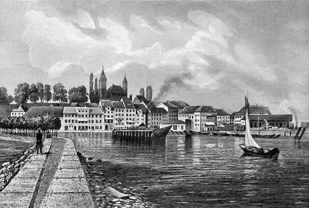 Rapperswil (SG) : Town, castle, church, harbour and Lake Zurich seen in ~ 1867.